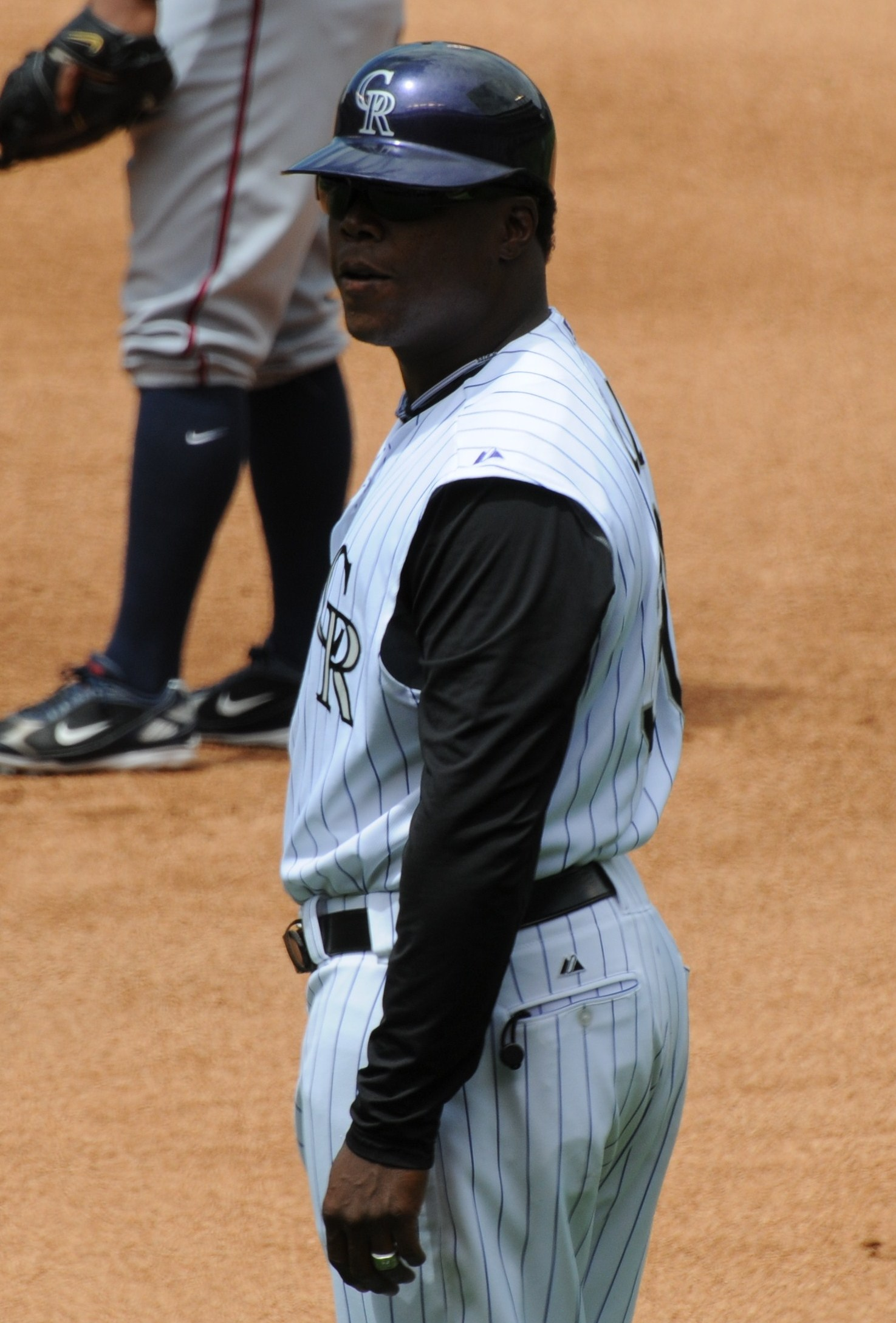 Description own workSource I created this work entirely by myself.Author Onetwo1 (talk) 16:01, 8 August 2008 . . Onetwo1 . . 1,475×2,592 (515 KB) own work